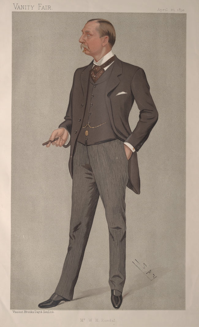 Men of the Day No.563: Caricature of Mr WH Kendal. Caption reads: "Mr WH Kendal"